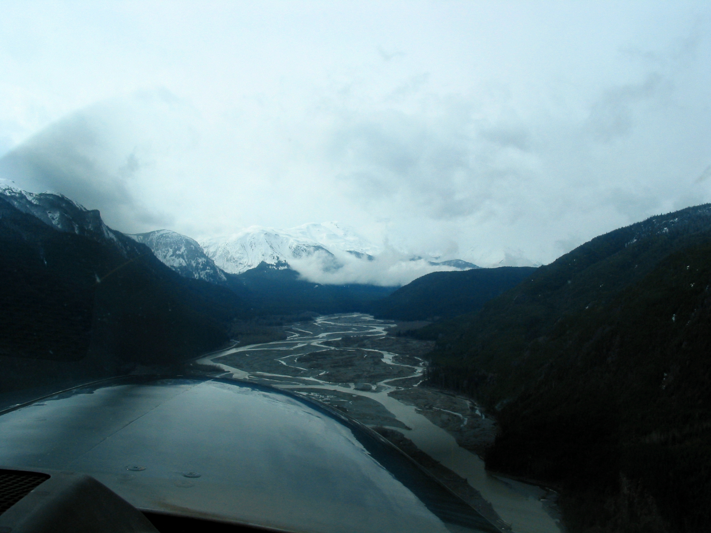 Westbound from Bob Quinn to Bronson. This is our 2nd attempt. The Weather was much nicer